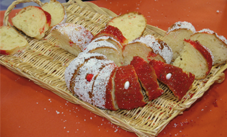 Illustration of the traditionnal "Brioche de Bourgoin"